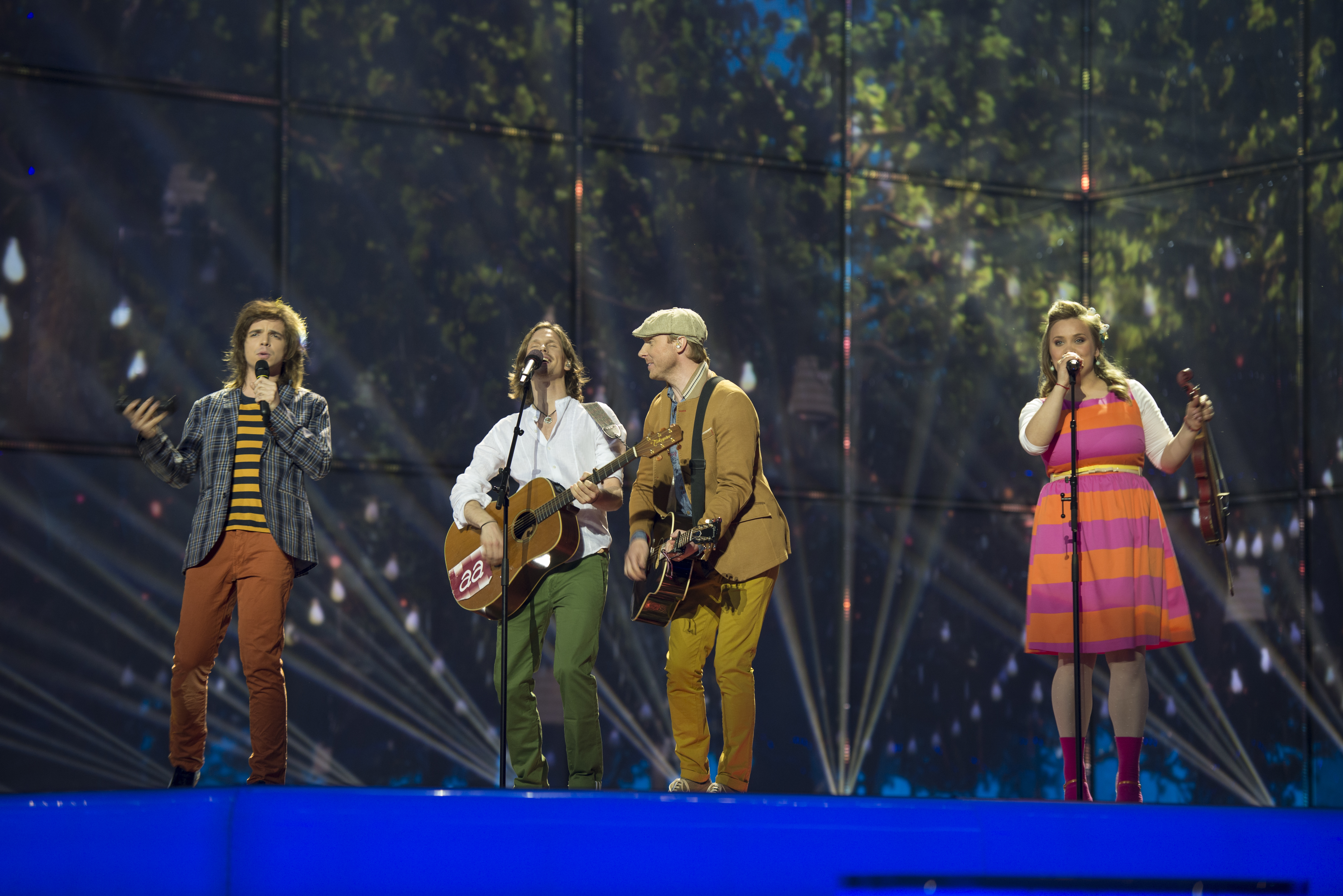 Aarzemnieki representing Latvia with the song "Cake to Bake" during the first dress rehearsal of the first semi final of the Eurovision Song Contest 2014 Copenhagen. (Help translate this text)